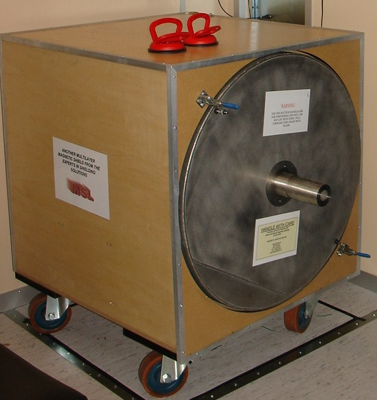 A 5-layer box made out of mumetal. Each layer is around 5 mm thick. The overall shape is cylindrical with removable 5 lids. The red suction handles are used for removing the lids. The "shafts" are drilled through and allow inserting cables and wires to connect to the equipment placed in the box. Each layer is around 5 mm thick, and if the main component of Earth magnetic field (North-South) is positioned across the main axis of the box, then the reduction of the field inside is over 1500 times. The box is manufactured by Magnetic Shields Ltd, Kent, England